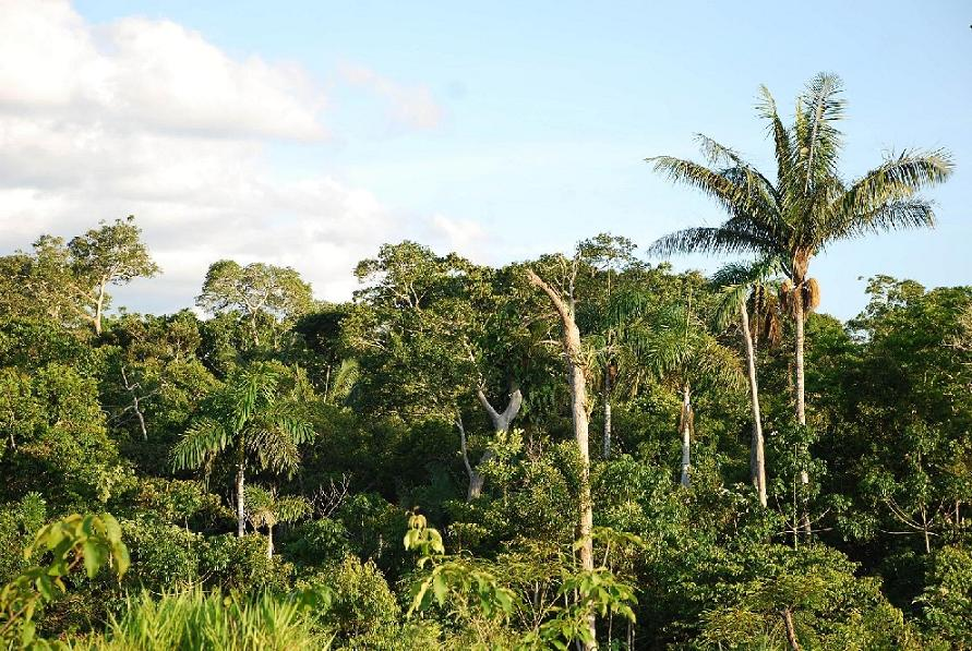 South American Jungle or Virgin Forest. Here in the border region between Bolivia and Peru. Puma country.